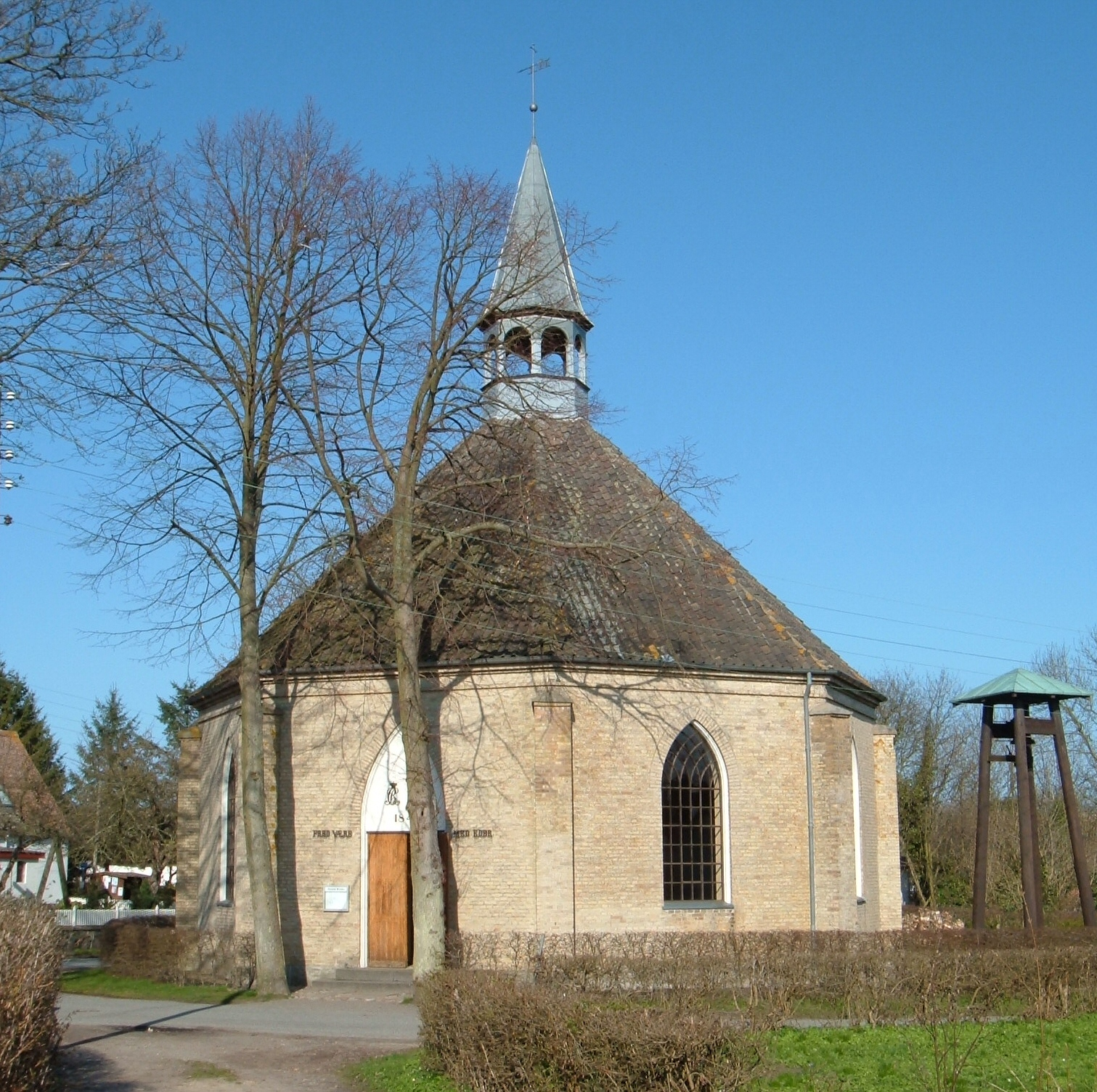 Church in village of Nyord, on island of Nyord, near Møn, Denmark. The church is octaginal and was constructed in 1846. Taken by contributor, spring 2006.